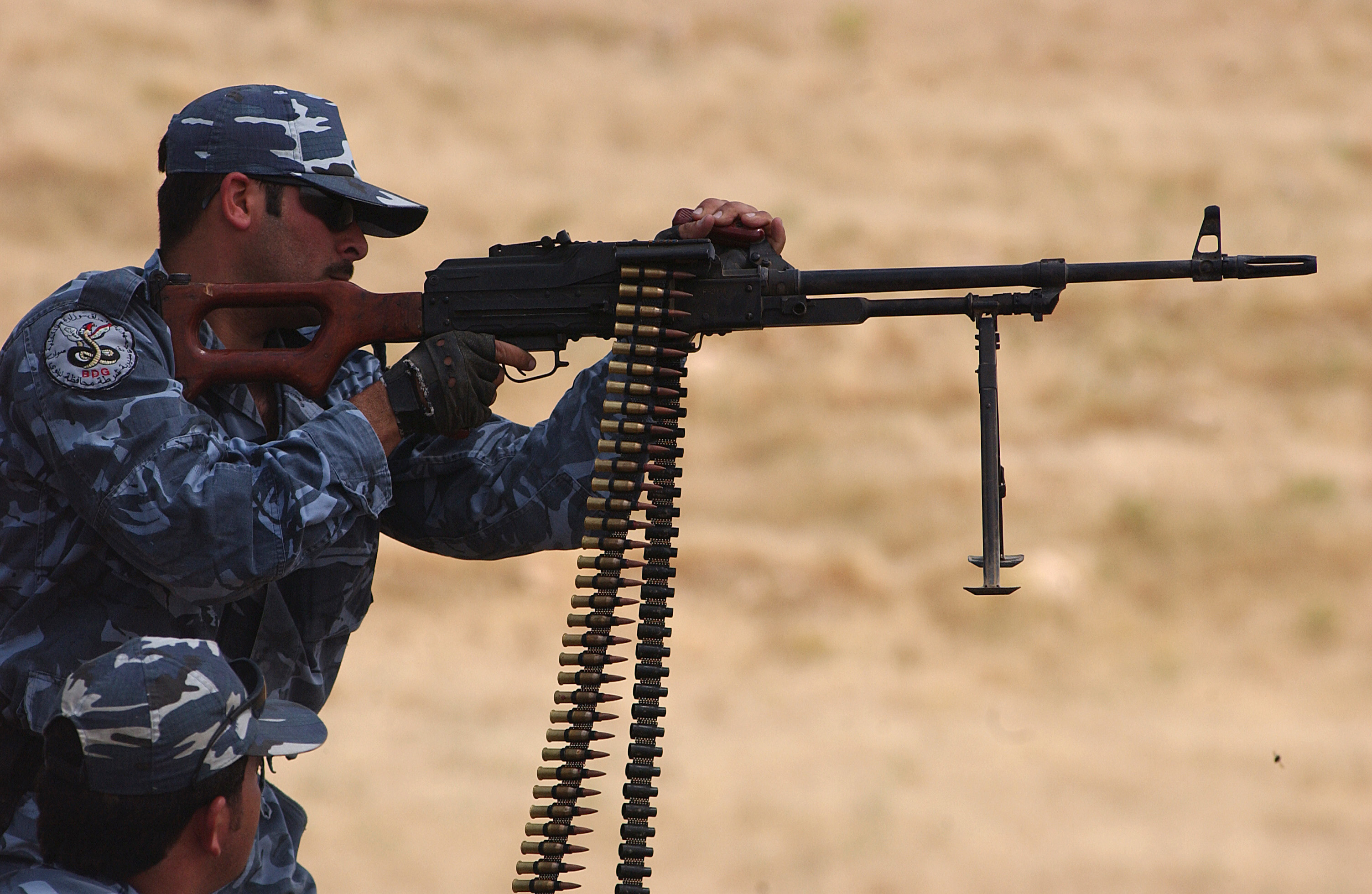 A Kurdish Peshmerga (COBRA special forces) officer fires a PKM in Mosul, (iraqi) Kurdistan. Original caption: An Iraqi police officer fires a rifle while training with international police liaison officers and members of the Civilian Police Assistance Training Team at Forward Operating Base Marez in Mosul, Iraq, May 1, 2007.